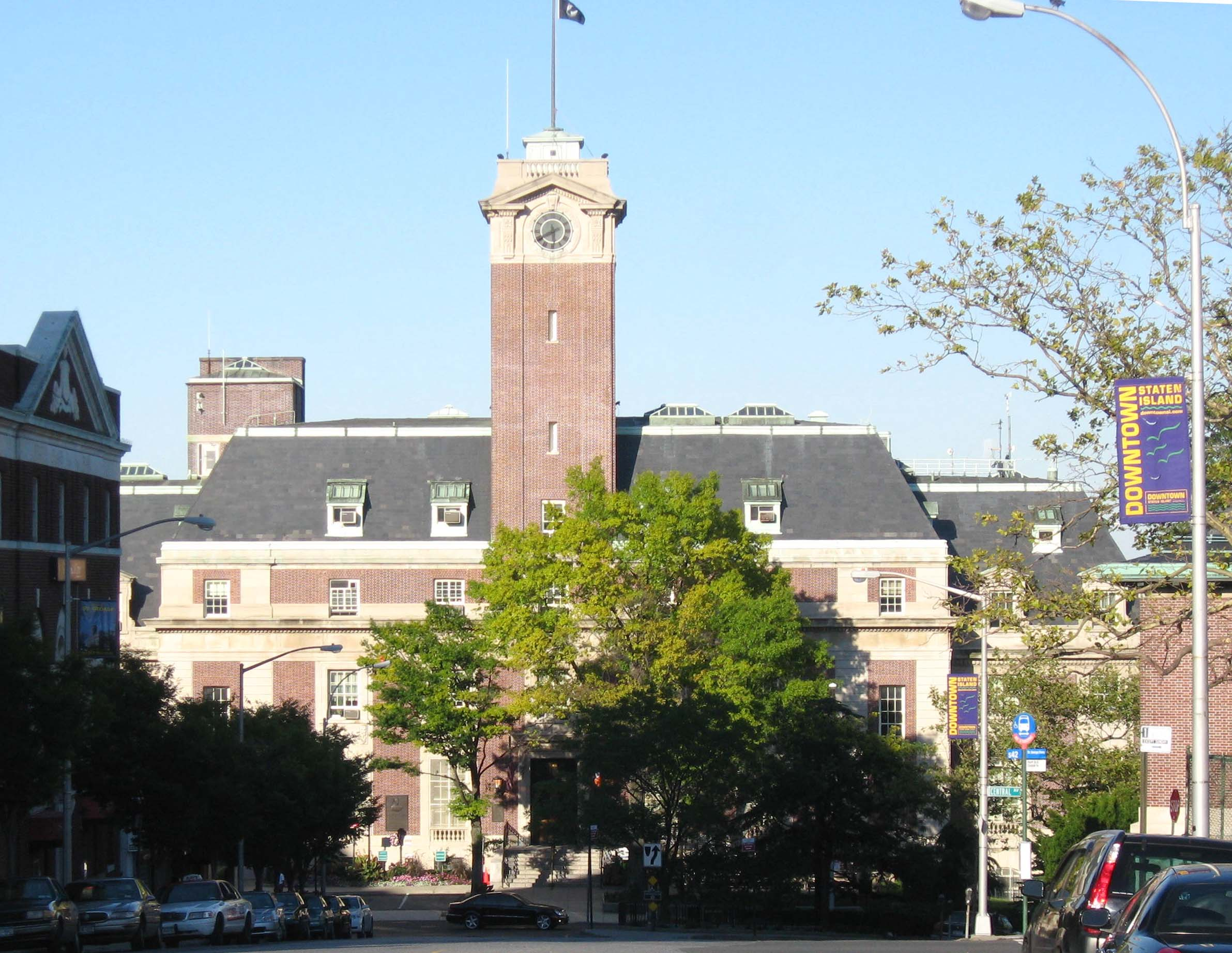 Looking northeast, zoomed, down Hyatt Street at the uphill side of Boro Hall, Staten Island on a sunny late afternoon. ZIP 10301.